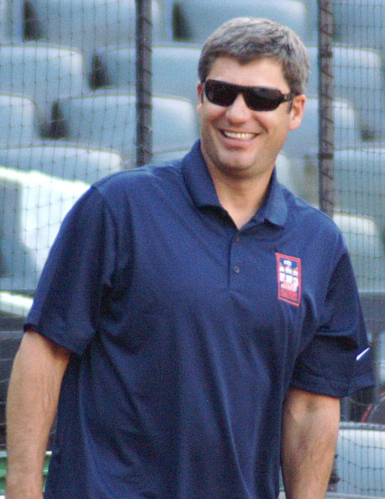 This was weeks before Ventura was even asked about managing the White Sox.